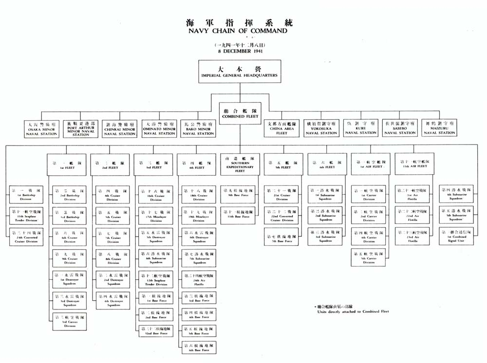 Chain of Command of Japanese Navy, 8 December 1941